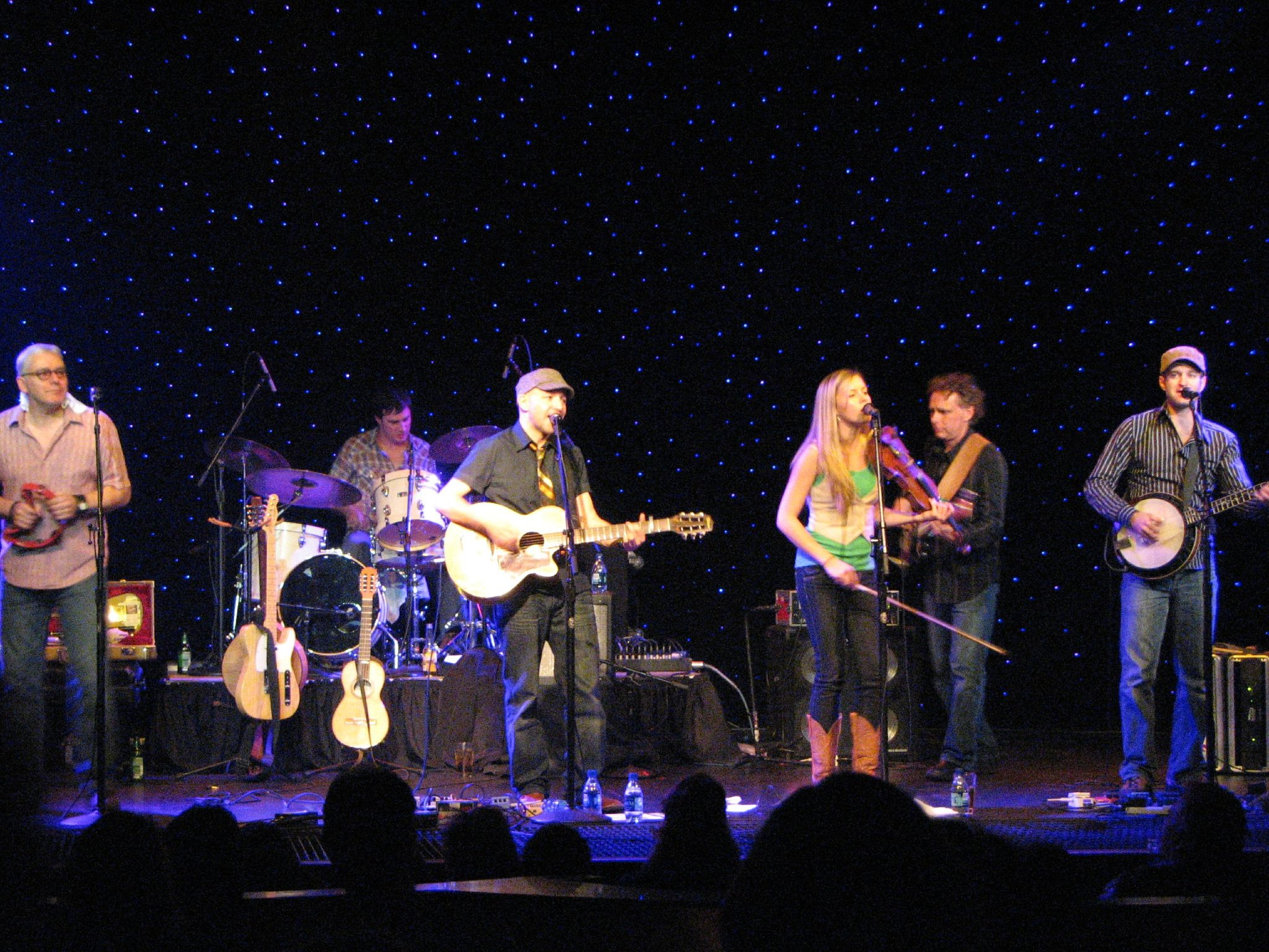 The Paperboys performing at the Triple Door in Seattle, Washington in November 2006. The band was formed in 1991 by vocalist and songwriter Tom Landa. The band currently consists of Landa, Kendel Carson on fiddle, Brad Gillard on banjo and bass, Geoffrey Kelly on flutes, and Matt Brain on drums. Occasional guests include Cam Salay on banjo and bass, Damian Graham on drums, Tobin Frank on bass and accordion, and Vince Mai on trumpet. From left to right: Kelly, Brain, Landa, Carson, Salay, Gillard.